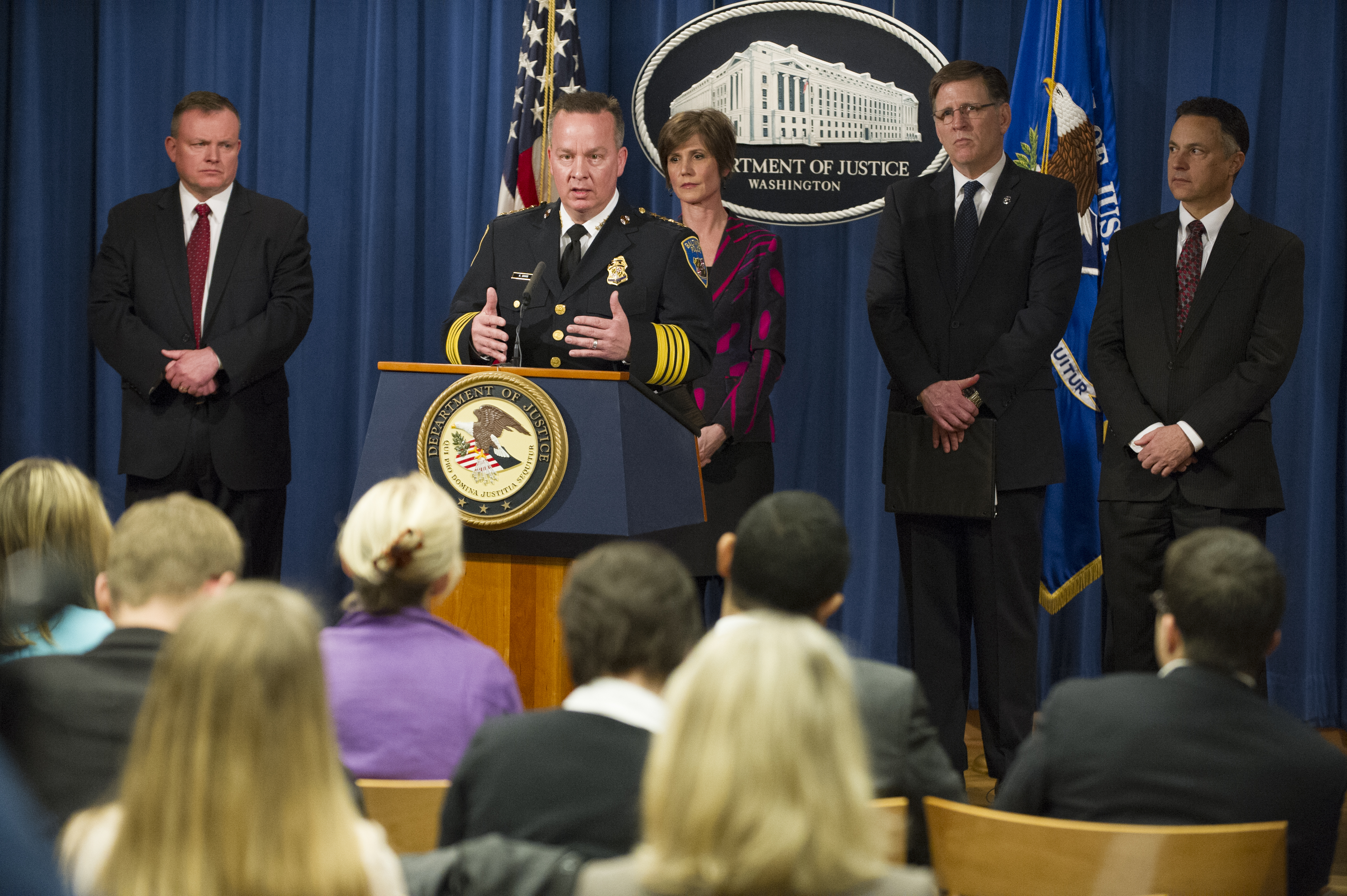 Washington - March 23, 2016. Police Commissioner for the city of Baltimore Kevin Davis speaks about the results of the U.S. Marshals led Operation VR12. This six-week initiative, resulted in the arrest of more than 8,075 gang members, sex offenders and other violent criminals. While Operation VR12 was conducted nationwide in all 94 federal judicial districts, U.S. Marshals focused special attention on 12 selected locations, designated as priority cities by the U.S. Department of Justice: Baltimore; Brooklyn, New York; Camden, New Jersey; Chicago, Illinois; Compton, California; Fresno, California; Gary, Indiana; Milwaukee, Wisconsin; New Orleans; Oakland, California; Savannah, Georgia; and Washington, D.C. In order to have the greatest impact on violent crime, Operation VR12 focused on fugitives who had three or more prior felony arrests for crimes such as murder, attempted murder, robbery, aggravated assault, arson, abduction/kidnapping, weapon offenses, sexual assault, child molestation and narcotics. Operation VR12 investigators increased their focus on fugitives accused of sex crimes and on the recovery of missing children. Between February 1 and March 11, the U.S. Marshals Service used its multi-jurisdictional investigative authority and fugitive task force network to arrest 648 gang members and others wanted on charges including 559 for homicide; and 946 for sexual offenses. In addition, investigators seized 463 firearms, $390,360 in currency, and more than 71 kilograms of illegal narcotics. Also during the operation, investigators recovered 17 children who had been abducted and reported missing. Please Credit: (Photo by Shane T. McCoy / US Marshals)